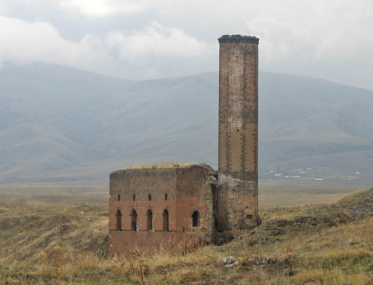 The ruins of Manucehr Mosque, an 11th century mosque built among the ruins of Ani. Kurdî: Mizgefta Menûçehr a li xirbeyên Aniyê ku ji aliyê Şedadiyan ve hatiye çêkirin.